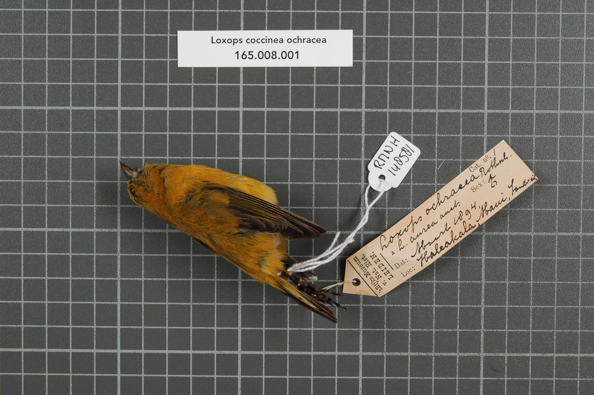 Loxops coccinea ochracea Rothschild, 1893